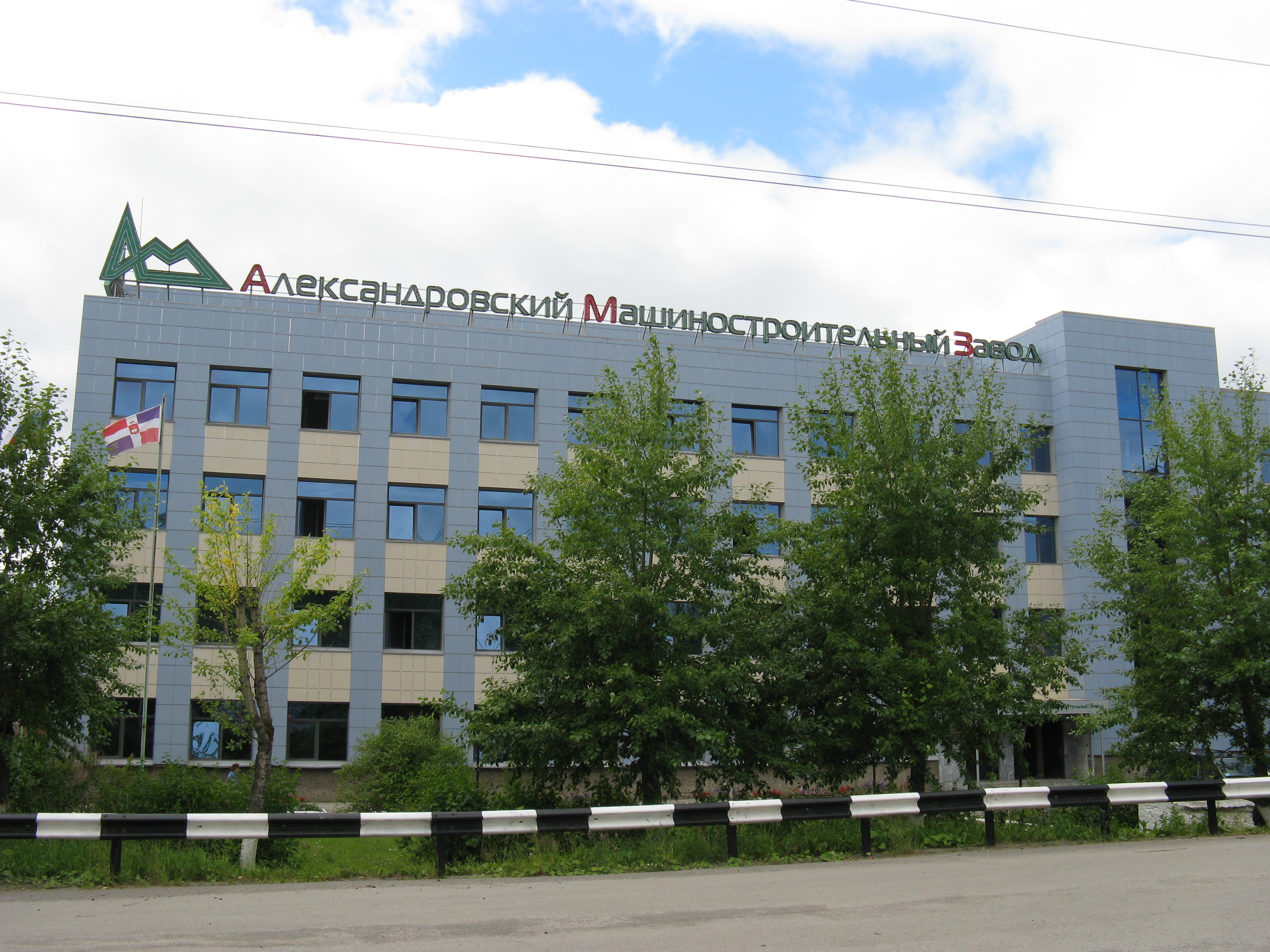 Alexandrovsk Machine Factory in Perm Krai